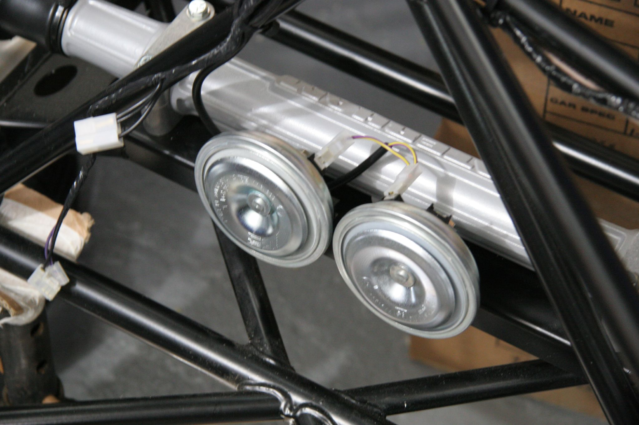 Lazy day - did only interior mirror, horns and washer jet. Odd - on a car that prides itself on being so light they supply two horns. I suppose I could have fitted only one but two - a high and a low tone - probably sound better. And yes, in case you were wondering, the horns do point backwards.